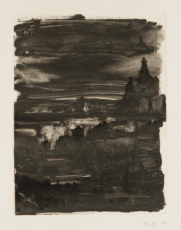 A monotype print made by Mary Smyth Perkins in 1907, titled Night Scene #1, depicting some cows in a dark landscape